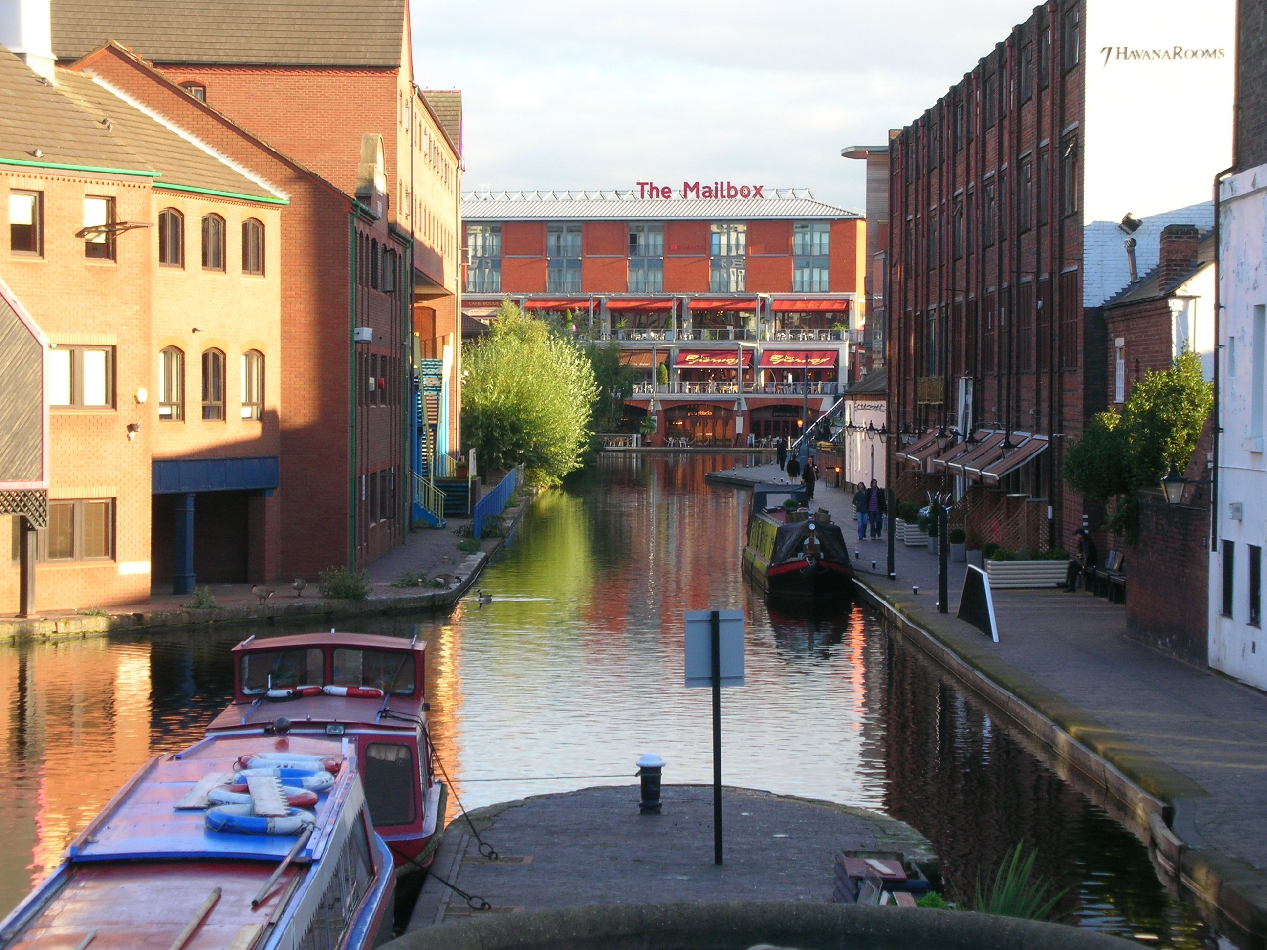 Gas Street Basin, central Birmingham, England. The start of the Worcester and Birmingham Canal. View looking towards The Mailbox. Photographed by me 9 October 2006. Oosoom 18:28, 28 March 2007 (UTC)